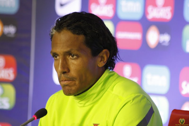 Paulo Bento at press conference during Euro 2012 in Opalenica on 6 June 2012.